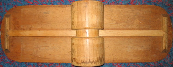 a rocker-roller balance board with cross-wise guidance